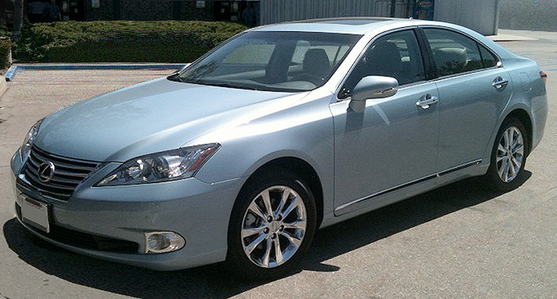 ES 350